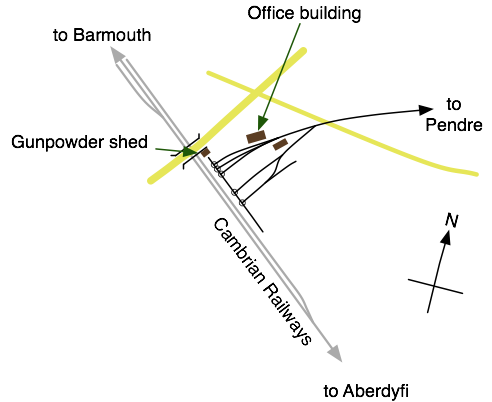 Layout of Tywyn Wharf Station, 1865 (then known as King's Station). Data from "The Talyllyn Railway" by J.I.C. Boyd